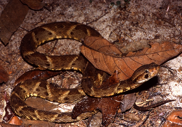 Bothrops atrox